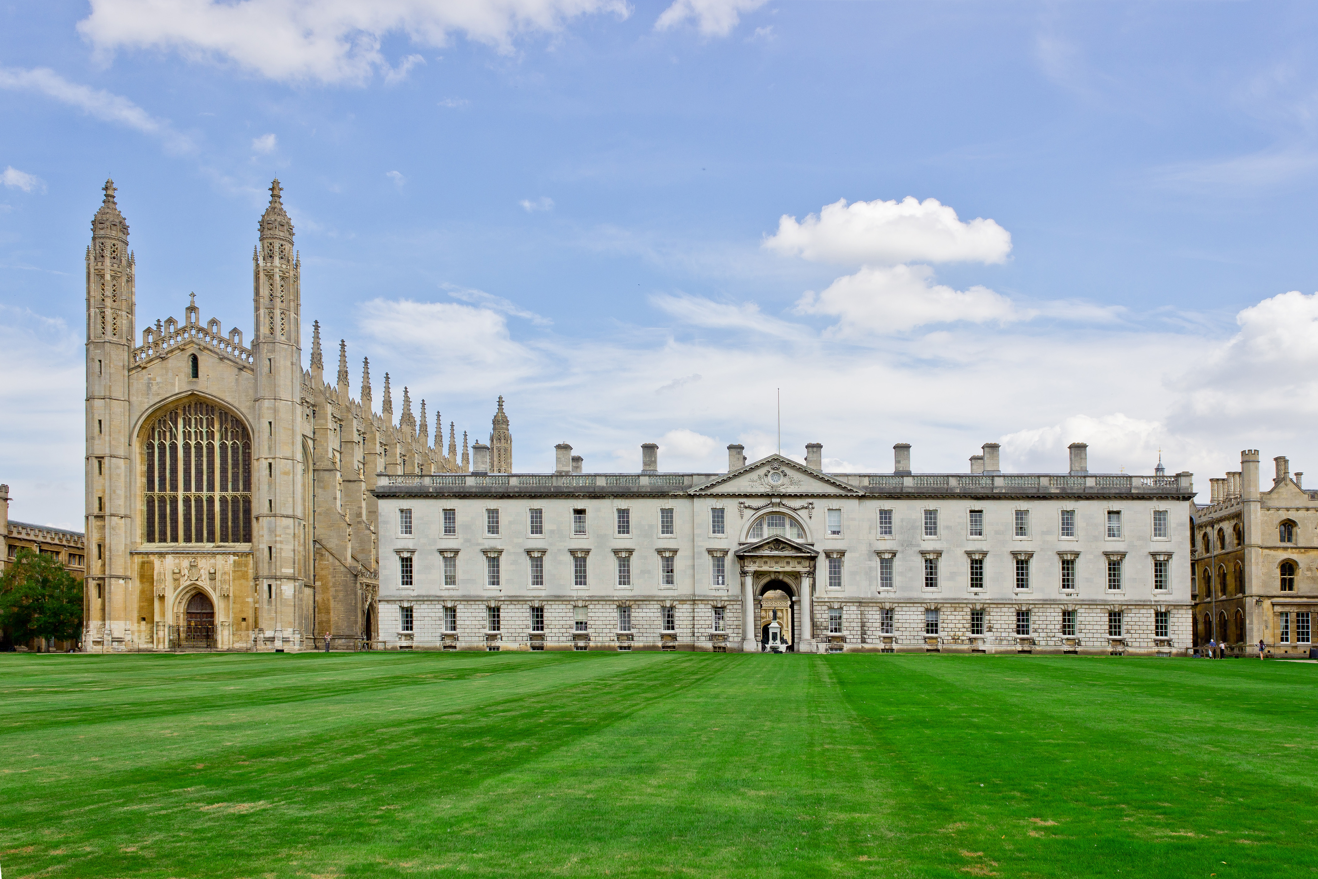 King's College Chapel and Gibbs Building, Cambridge. View from the back court of King's College.